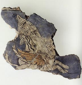 Fragment of a 13th century B.C. mural from Orchomenos depicting warrior goddess, in the Cult Centre of Mycenae in boar tusk helmet with a griffin